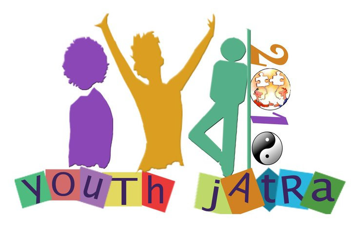 Official Logo of Youth Jatra, a mega event on International Youth Day 2010.